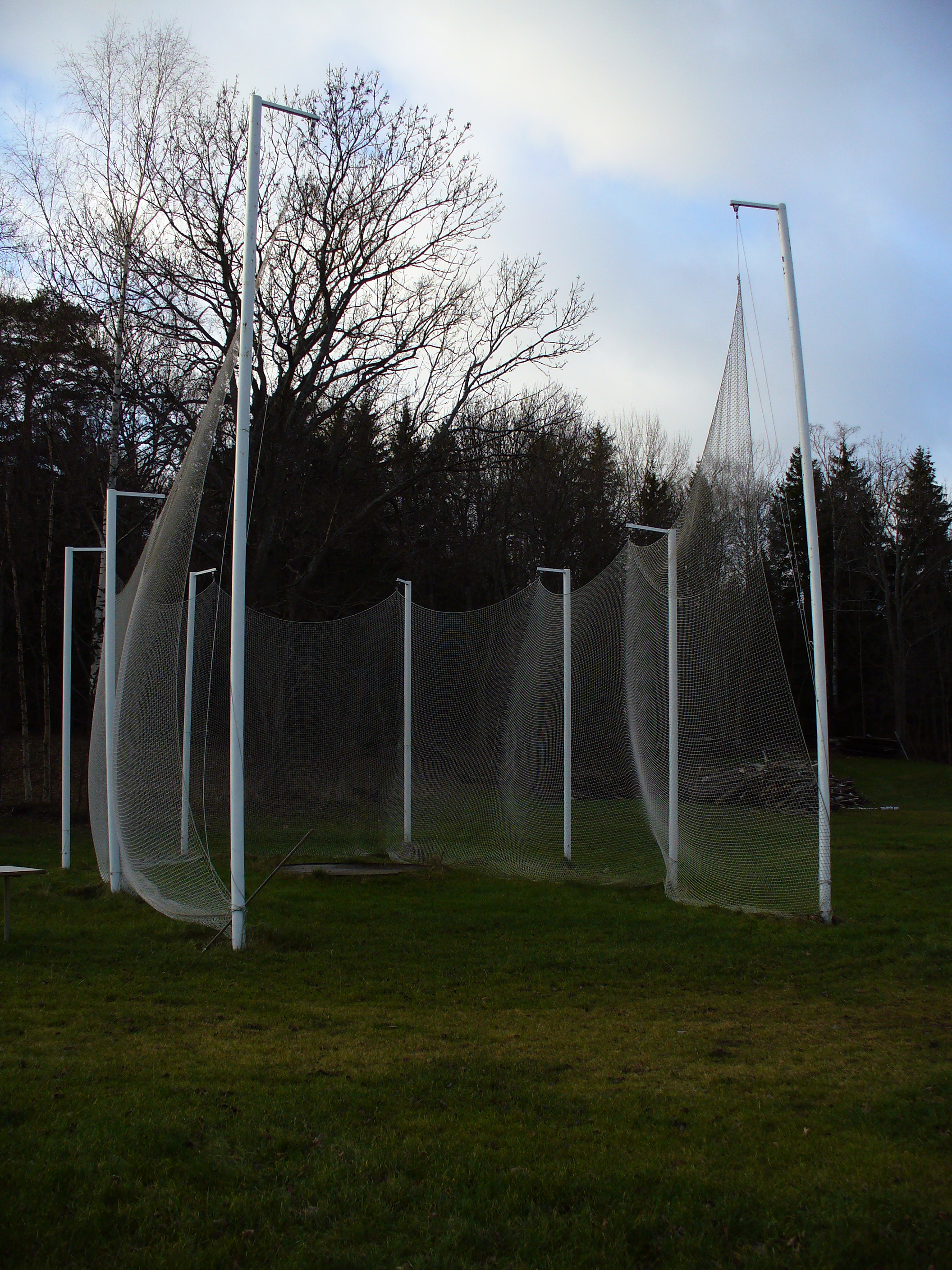 Safety net for hammer throw at Bosön, Lidingö, Sweden